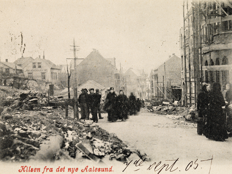 Tittel / Title: Hilsen fra det nye Aalesund Motiv / Motif: Postkort. Den store bybrannen i Ålesund fant sted natt til 23. januar 1904. Dato / Date: 1904 Fotograf / Photographer: ukjent Utgiver / Publisher: Alb. Gjörtz Sted / Place: Møre og Romsdal, Ålesund Eier / Owner Institution: Nasjonalbiblioteket / National Library of Norway Lenke / Link: Bildesignatur / Image Number: blds_03793